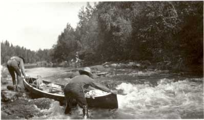 The Goose River flows into the Sturgeon-Weir River less than 5 km. north of the community of Sturgeon Landing. It was part of the Hudson's Bay Company's 'Upper Track', the route to Hudson Bay from Cumberland House via the Sturgeon-Weir, Goose, Grass, and Nelson Rivers. The portage from Lake Athapapuscow at the upper end of the Goose River to First Cranberry Lake on the Grass River was named Cranberry Portage, where the community of the same name is situated.